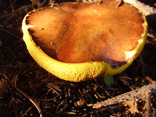 Cap of Suillus luteus. Taken at Kambanite, Sofia, Bulgaria.